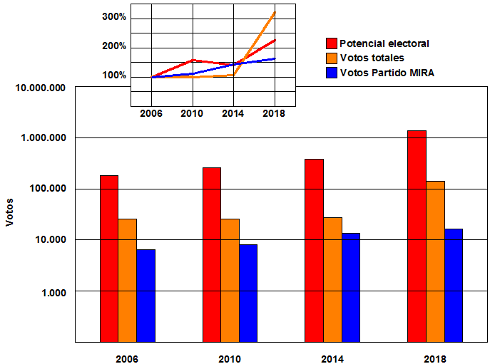 This figure summarizes the historic (2006-2018) election results of the MIRA Party in the Colombian expatriates Constituency. The data was taken from the final vote counting done by the National Civil Registry of Colombia. The subplot shows the votation trends.